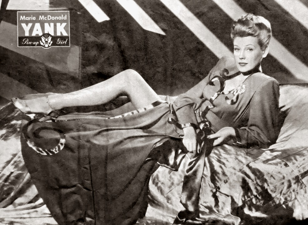 Pin-up photo of Marie McDonald for the Sep. 8, 1944 issue of Yank, the Army Weekly, a weekly U.S. Army magazine fully staffed by enlisted men.